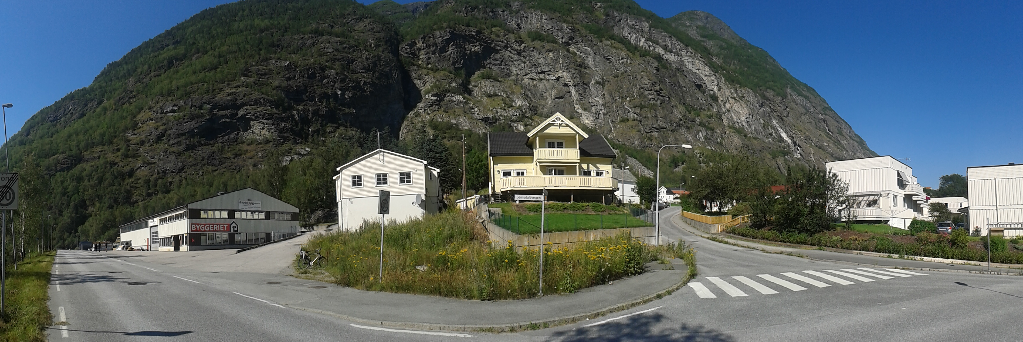 Panoranic view of the Western exit from Årdalstangen, Norway